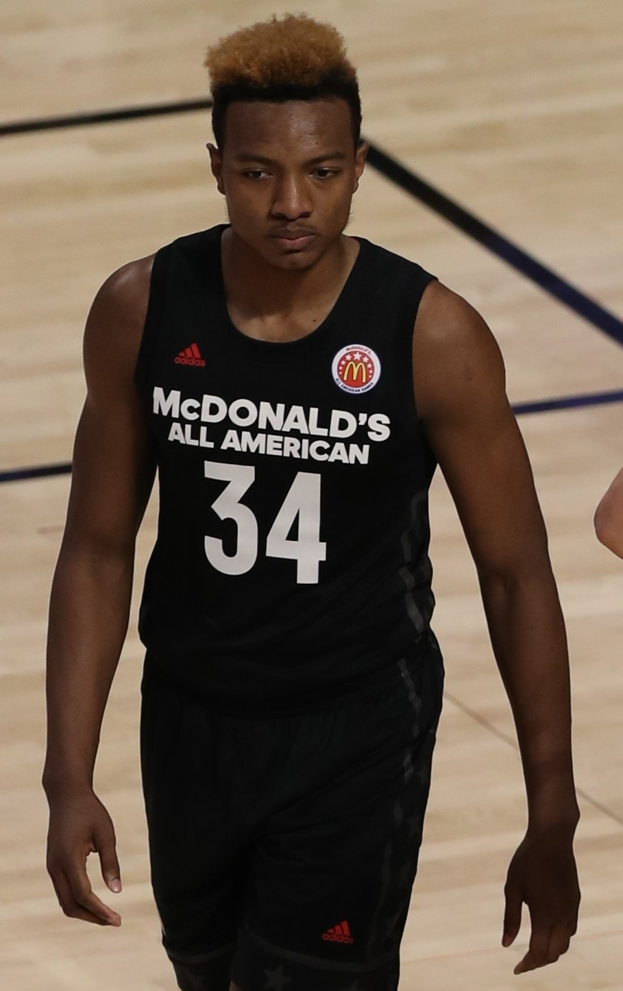 Wendell Carter Jr. at the w:2017 McDonald's All-American Boys Game